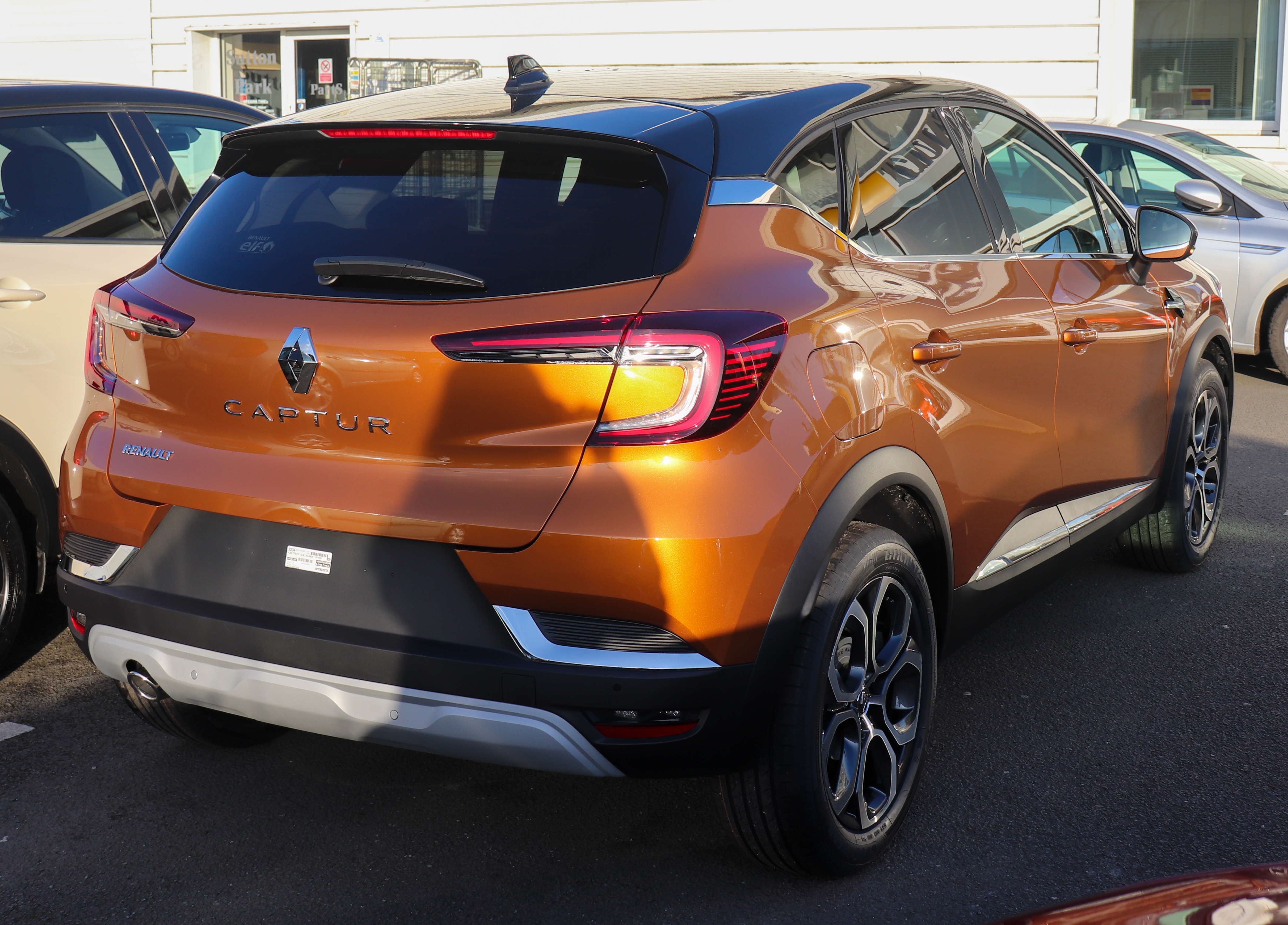 2020 Renault Captur S Edition Rear Taken in Leamington Spa